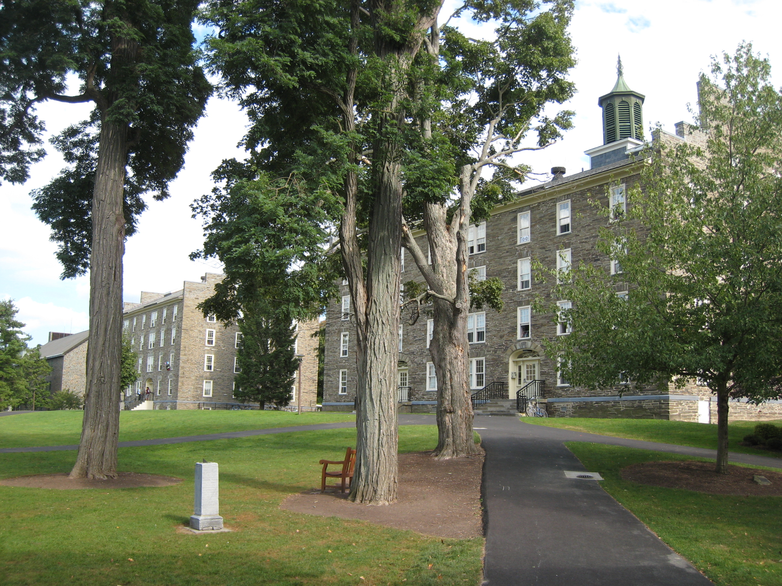 East and West Halls seen from the Chapel